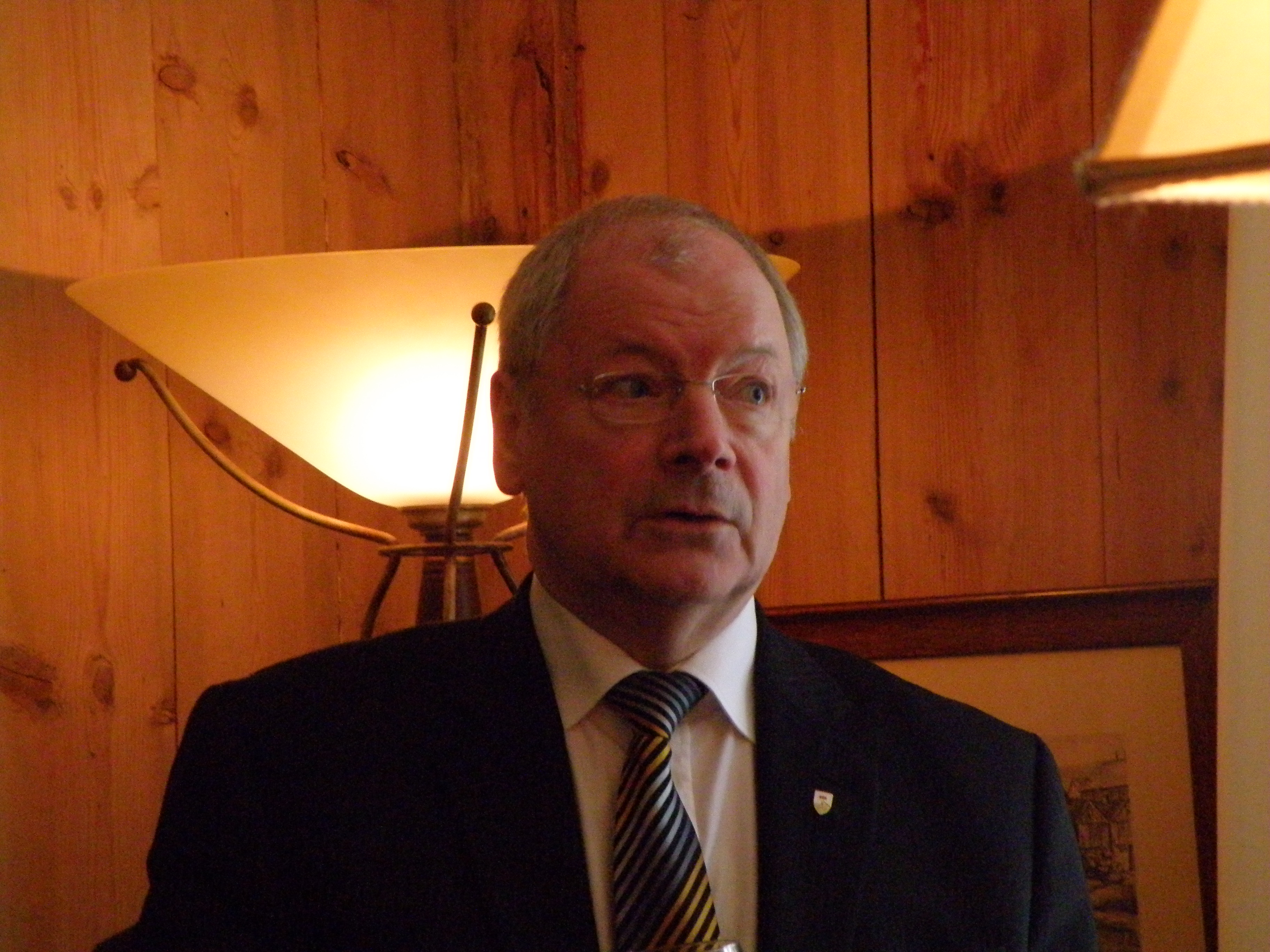 Heðin Mortensen has been Mayor of Tórshavn, Faroe Islands, since 2005. In November 2012 he broka all previous records by getting 2637 personal votes at the elections for the city council of Tórshavn. He was elected for the Social Democratic (Javnaðarflokkurin), which got 4599 votes and 7 of 13 members. 11.135 people voted for the elections in Tórshavn. Mr. Mortensen has earlier been a member of the Faroese Parliament (Løgtingið) from 1998 to 2004 for Sambandsflokkurin (Union Party). He was President of the Faroese Confederation of Sports (ÍSF) from 1980 to 2008. Føroyskt: Heðin Mortensen er borgarstjóri í Havn, valdur inn fyri Javnaðarflokkin. Hann hevur verið borgarstjóri síðan 2005. Á býráðsvalinum í november 2012 slóð hann øll met við persónligum atkvøðum, tá hann fekk 2637 persónligar atkvøður. Listi C, sum er Javnaðarflokkurin, fekk 7 býráðslimir valdar og kundi harvið stýra einsamallur, men borgarstjórin valdi tó at fara í eitt breitt samstarv við allar flokkarnar, tað vóru fýra flokkar/listar, ið fingu umboðan í Tórshavnar Býráð. Heðin hevur verið býráðslimur í Tórshavnar Býráð síðan 1973. Hann var forseti í Ítróttarsambandi Føroya (ÍSF) frá 1980 til 2008. Heðin hevur eisini verið løgtingslimur frá 1998 til 2004, tað var fyri Sambandsflokkin. Hann skifti flokk og gjørdist limur í Javnaðarflokkinum, tá tað stóð honum í boðið at gerast borgarstjóri í Havn eftir býráðsvalið í 2004.